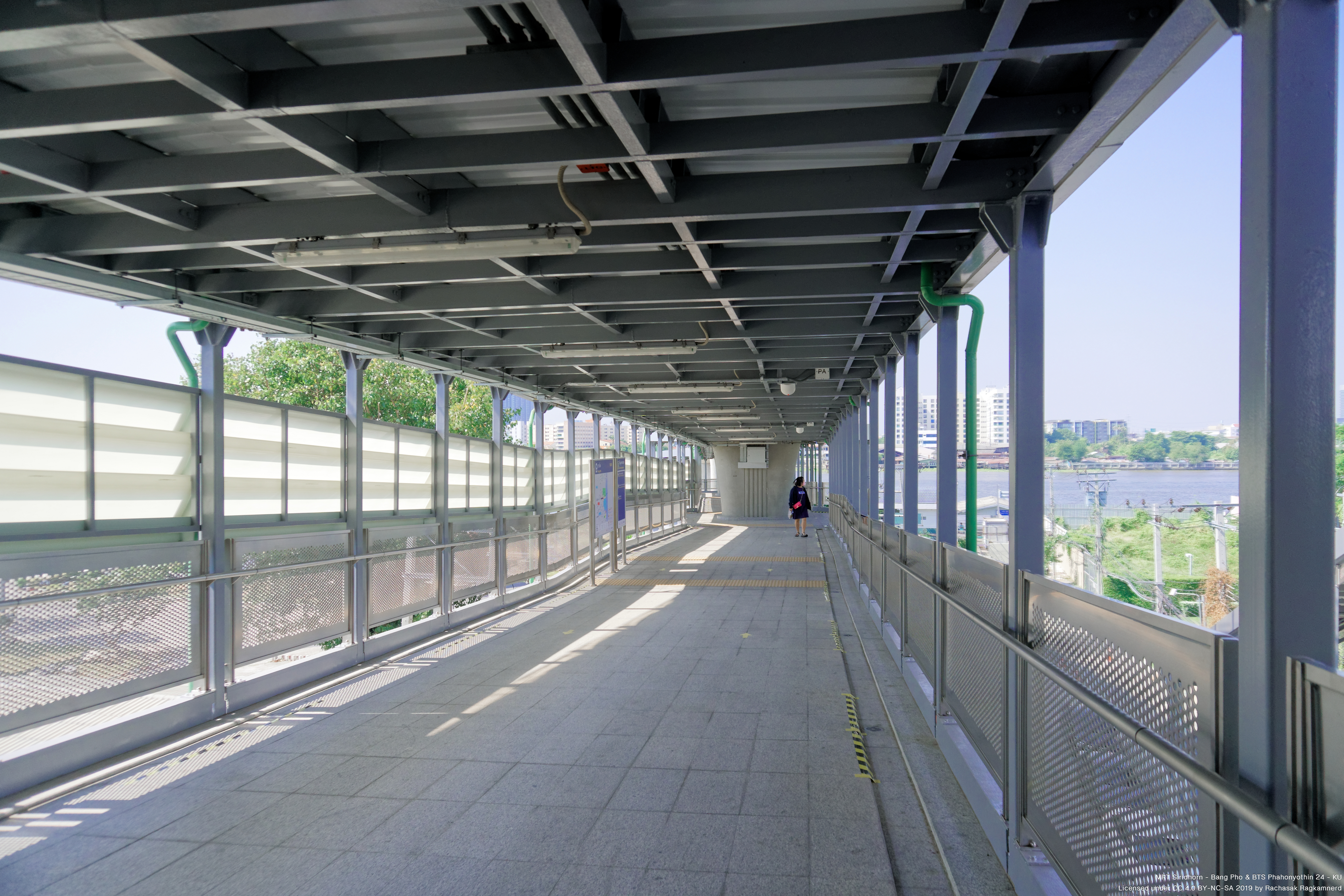 MRT Bang Pho - Exit 1 pedestrian bridge